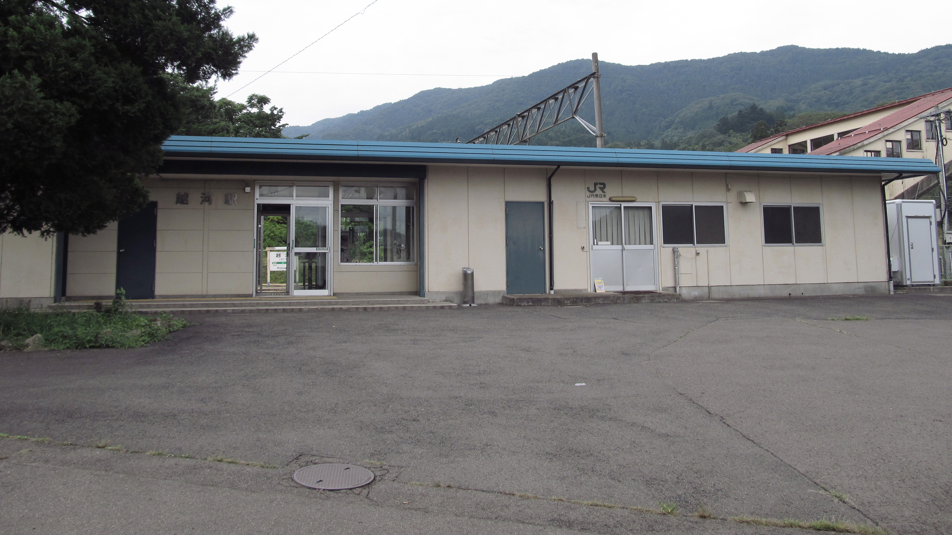 The entrance to Kosugō Station on the Tōhoku Main Line in Shiroishi city, Miyagi prefecture, Japan